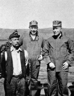 Published Oct 5, 1915. CF&I tour of mines in Colorado